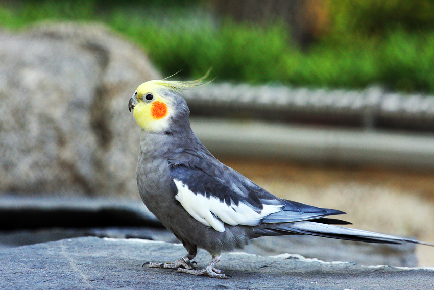 Cockatiel Parakeet (Nymphicus hollandicus).